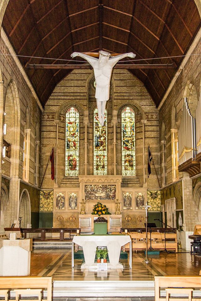 The Sanctuary in the Cathedral of St Michael and St George, Aldershot